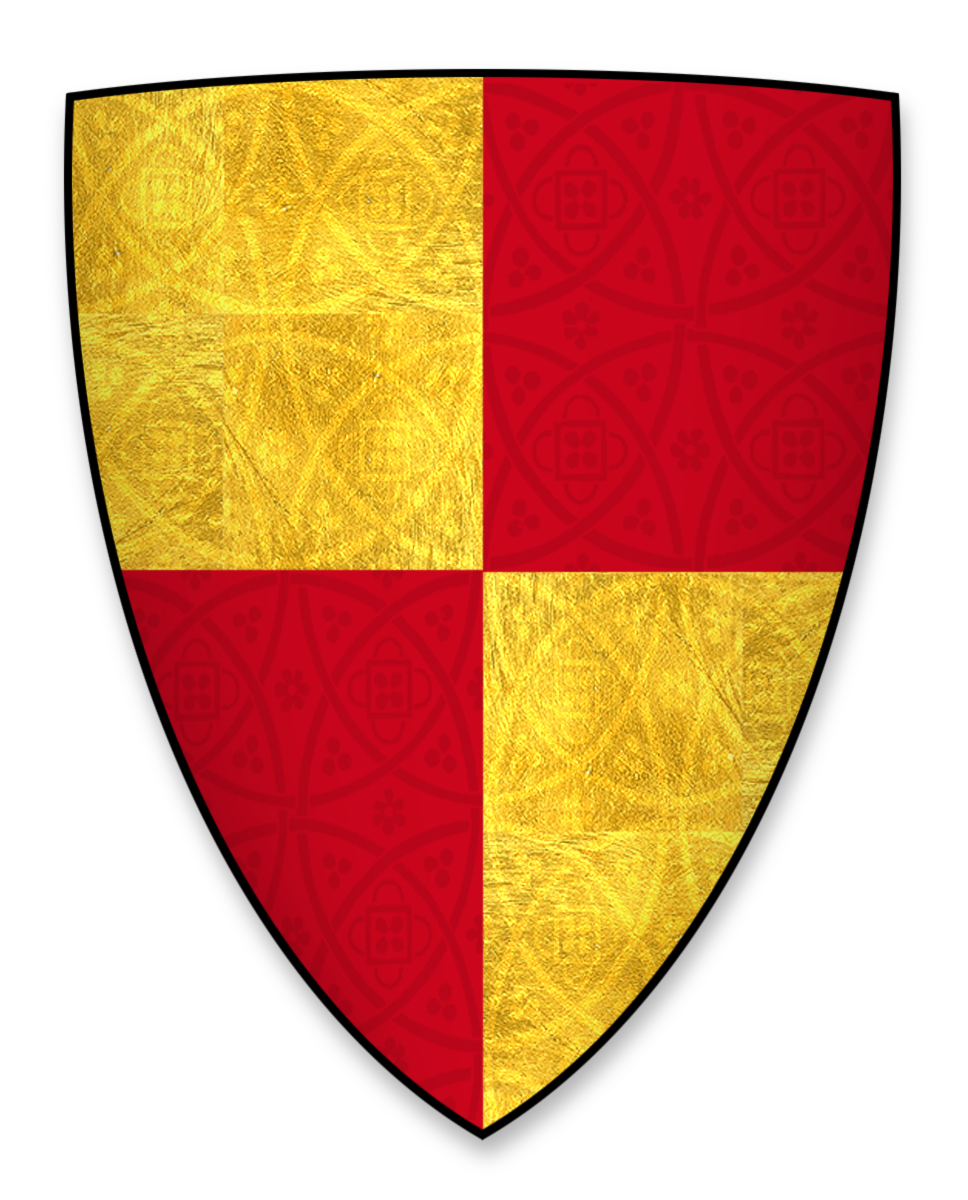 Coat of arms of Geoffrey de Saye, Baron